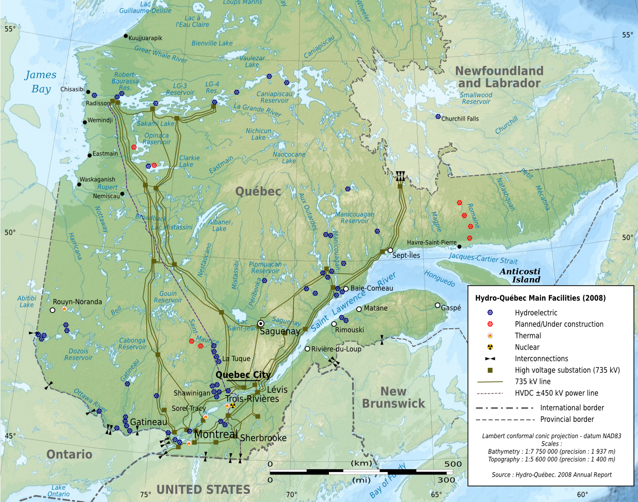 English version a map of Quebec, with generating stations and main transmission lines and substations (735 kV and ±450 kV DC) in separate layers.